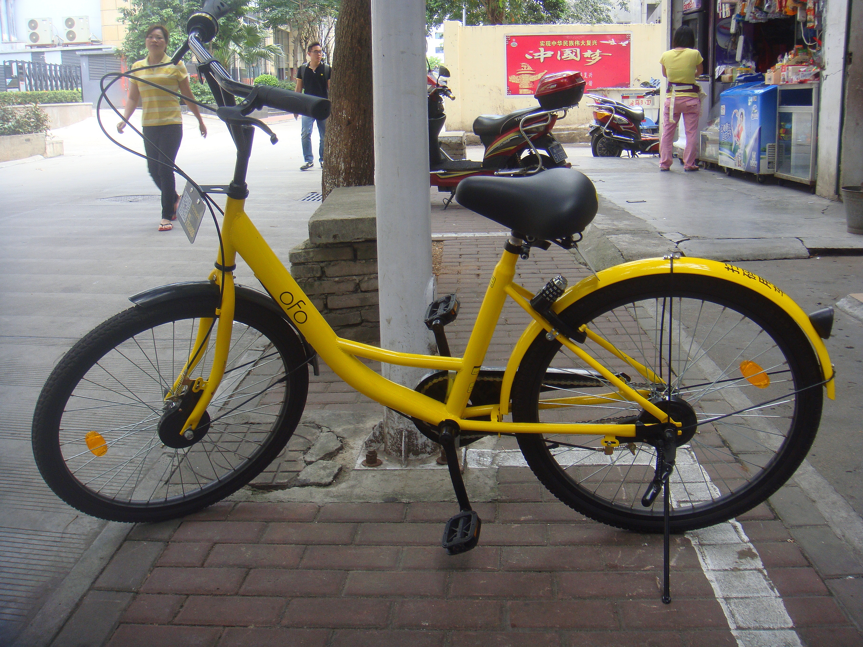 Ofo bike in Haikou, Hainan, China